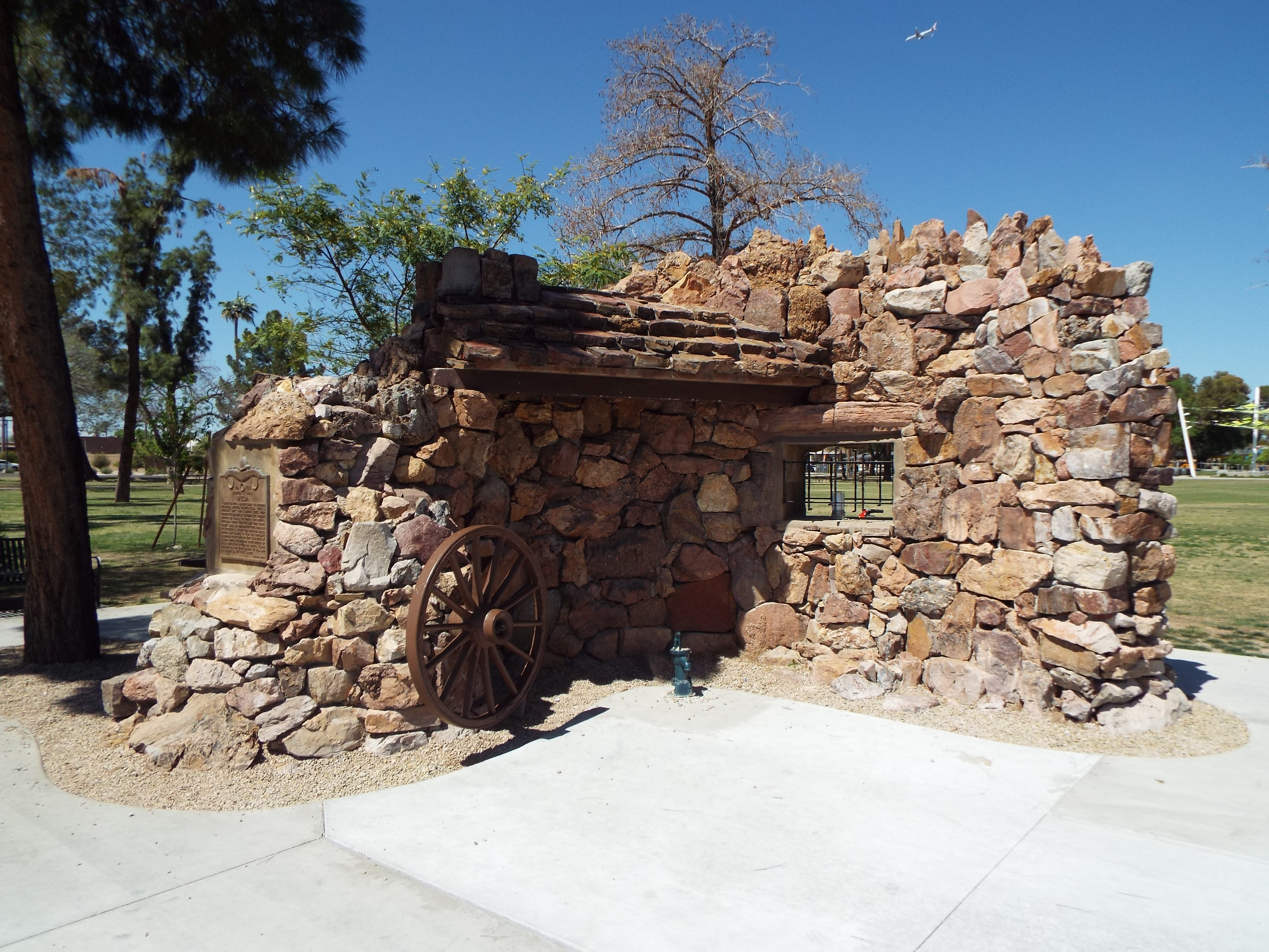 1878 Pioneer Mormon ruins in Pioneer Park, Mesa, Arizona